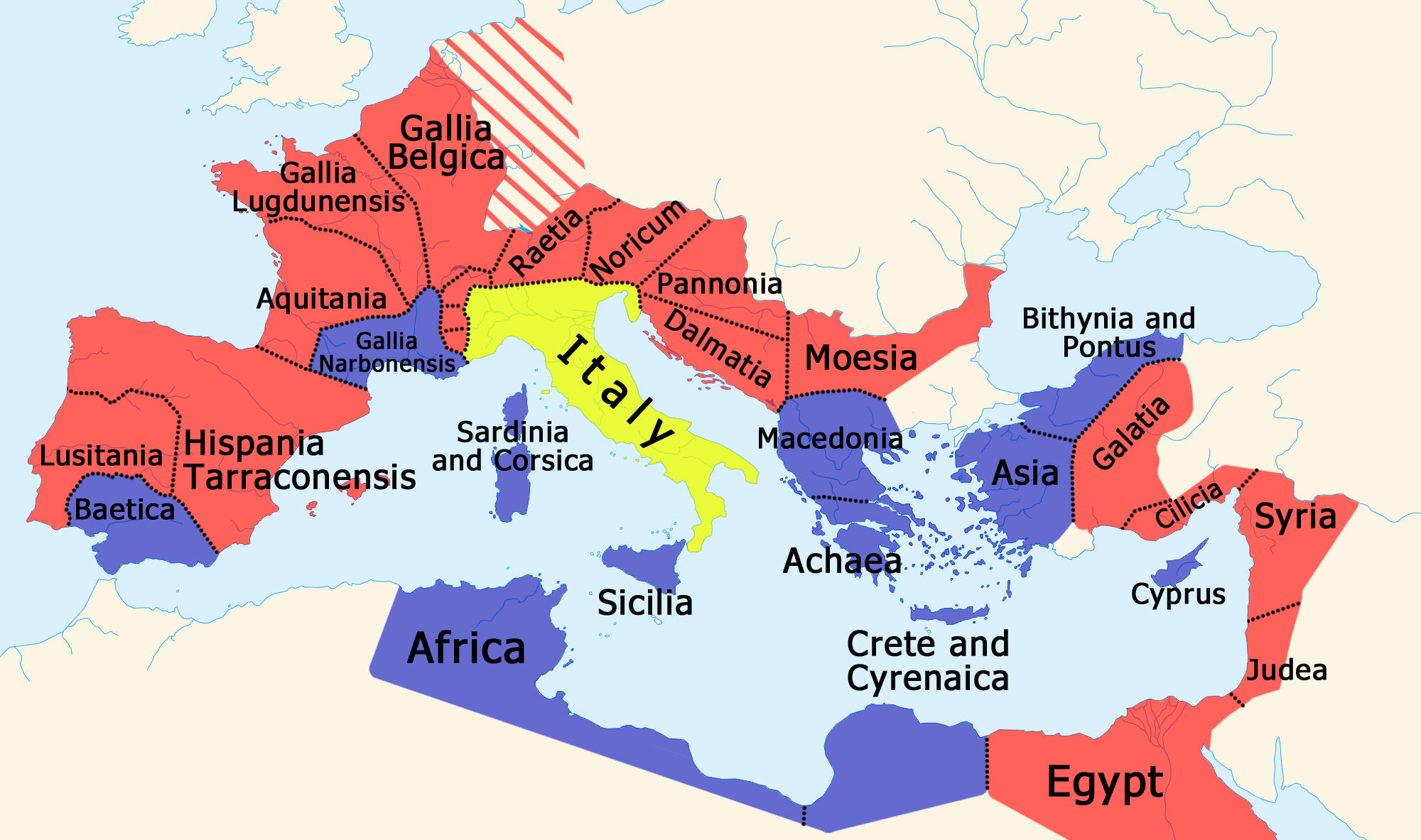 Provinces of the Roman Empire in 14 AD, in English. Imperial provinces Senatorial provinces Italy